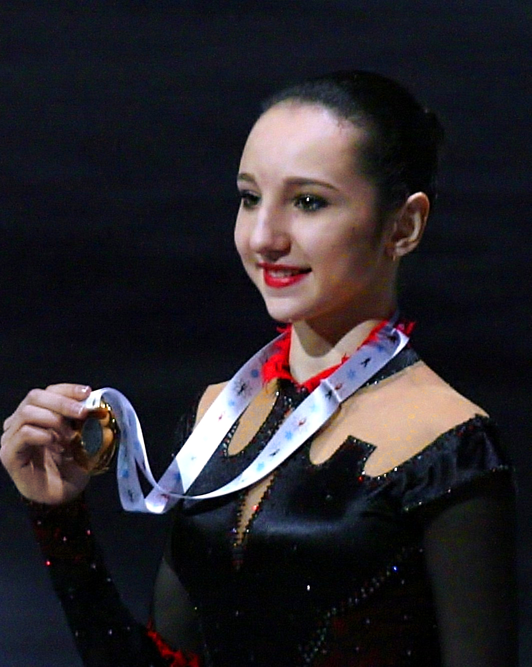 Polina Tsurskaya at the Junior Grand Prix Final in December 2015.